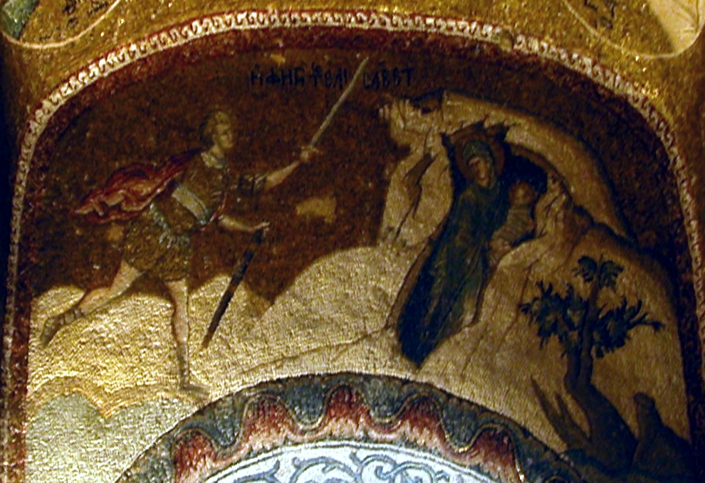 S.Elizabeth with child John Baptist in desert. Mosaic in Chora church